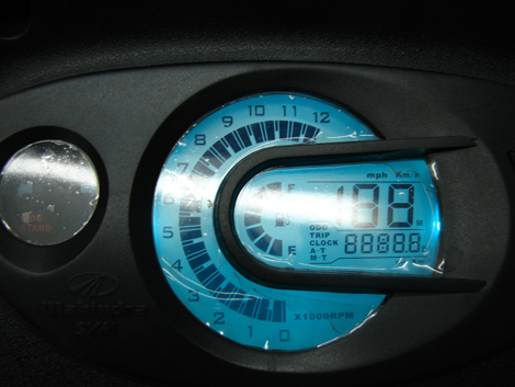 Rodeo Thatchometer